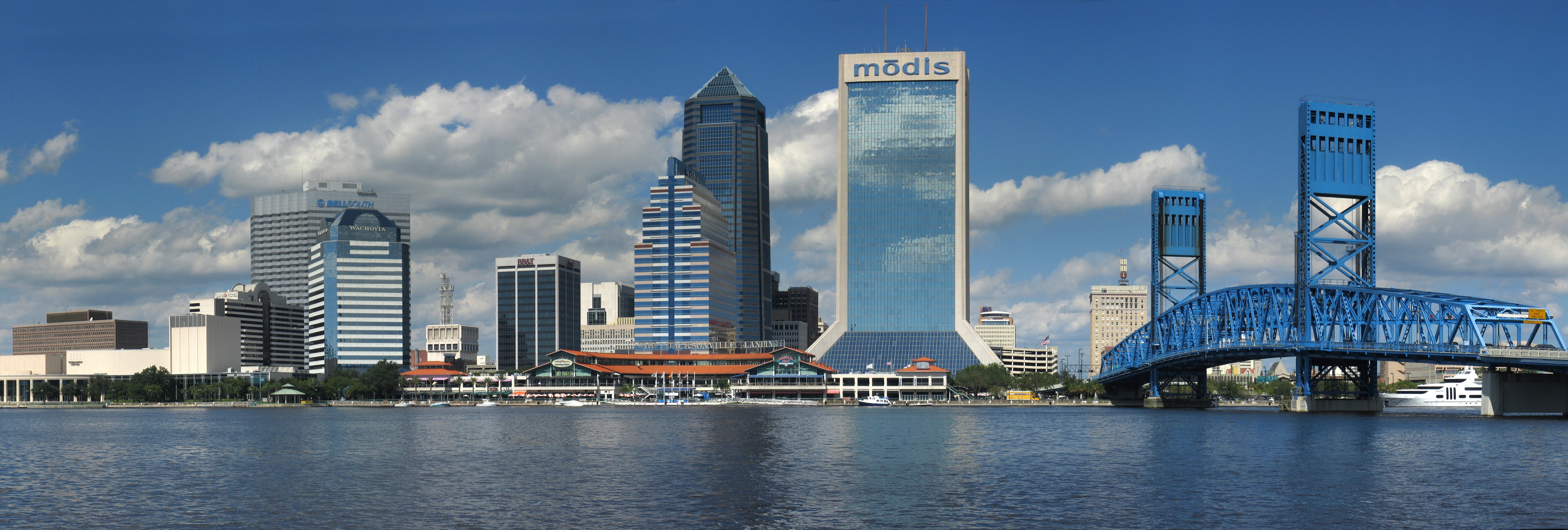 Panorama of the Jacksonville city skyline from across the St. Johns river in Jacksonville, Florida, USA. Jacksonville is the largest city in land area in the United States